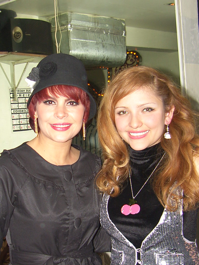 Mary Boquitas with singer and composer Cherry